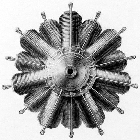 Gnome Omega-Omega (100 hp), as shown in October 1913 Gnome engine catalog.